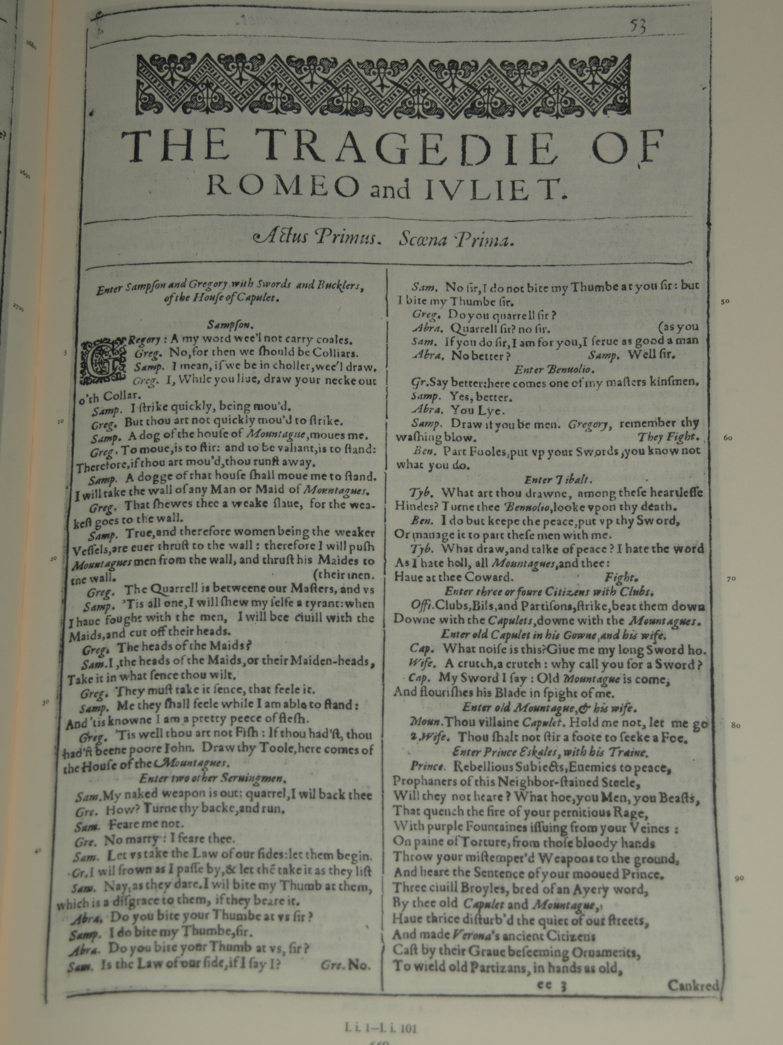 Photo of the first page of Romeo and Juliet from a facsimile edition of the First Folio of Shakespeare's plays, published in 1623